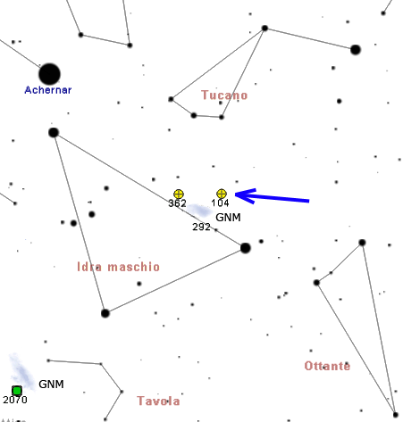 47 Tucanae